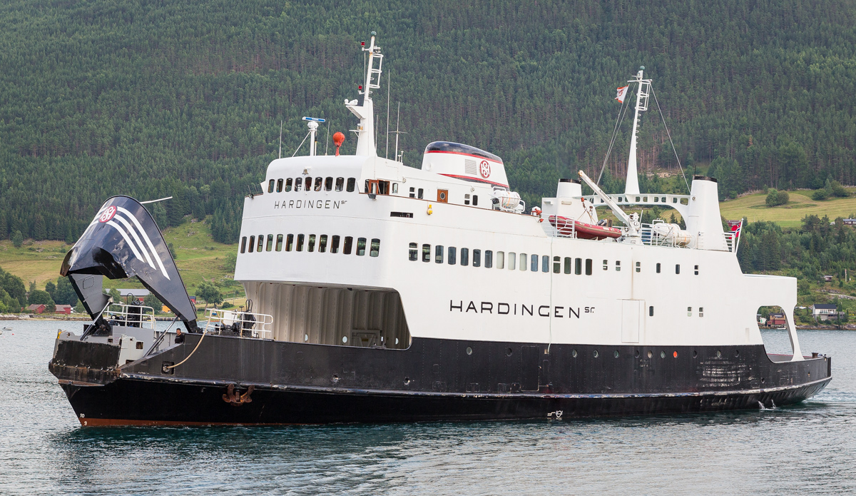 Vintage ferry Hardingen (built 1966) arrives Kaupanger in route with tourists from Gudvangen.